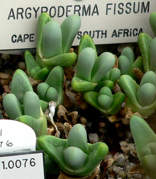 Photo of Argyroderma fissum at the University of California Botanical Garden